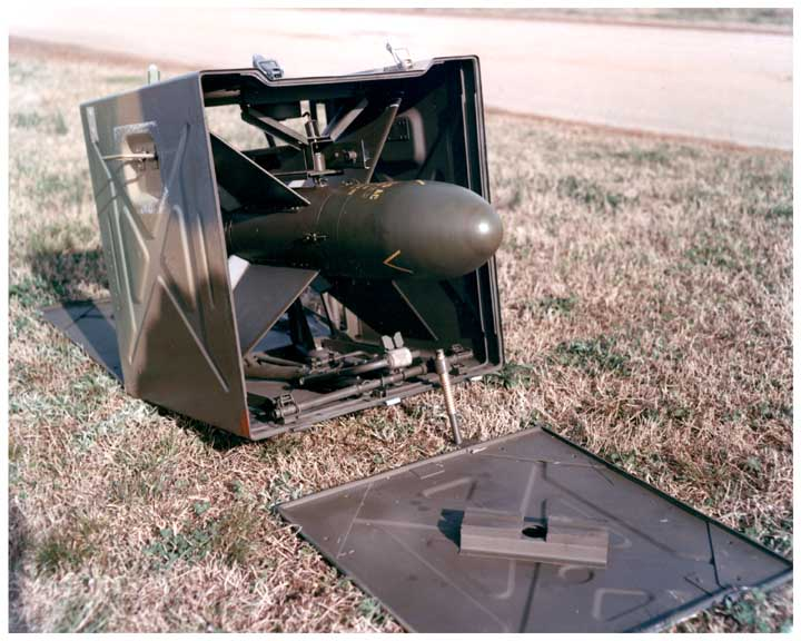 SS10 Anti Tank missile March 29 1961 at Redstone testing grounds